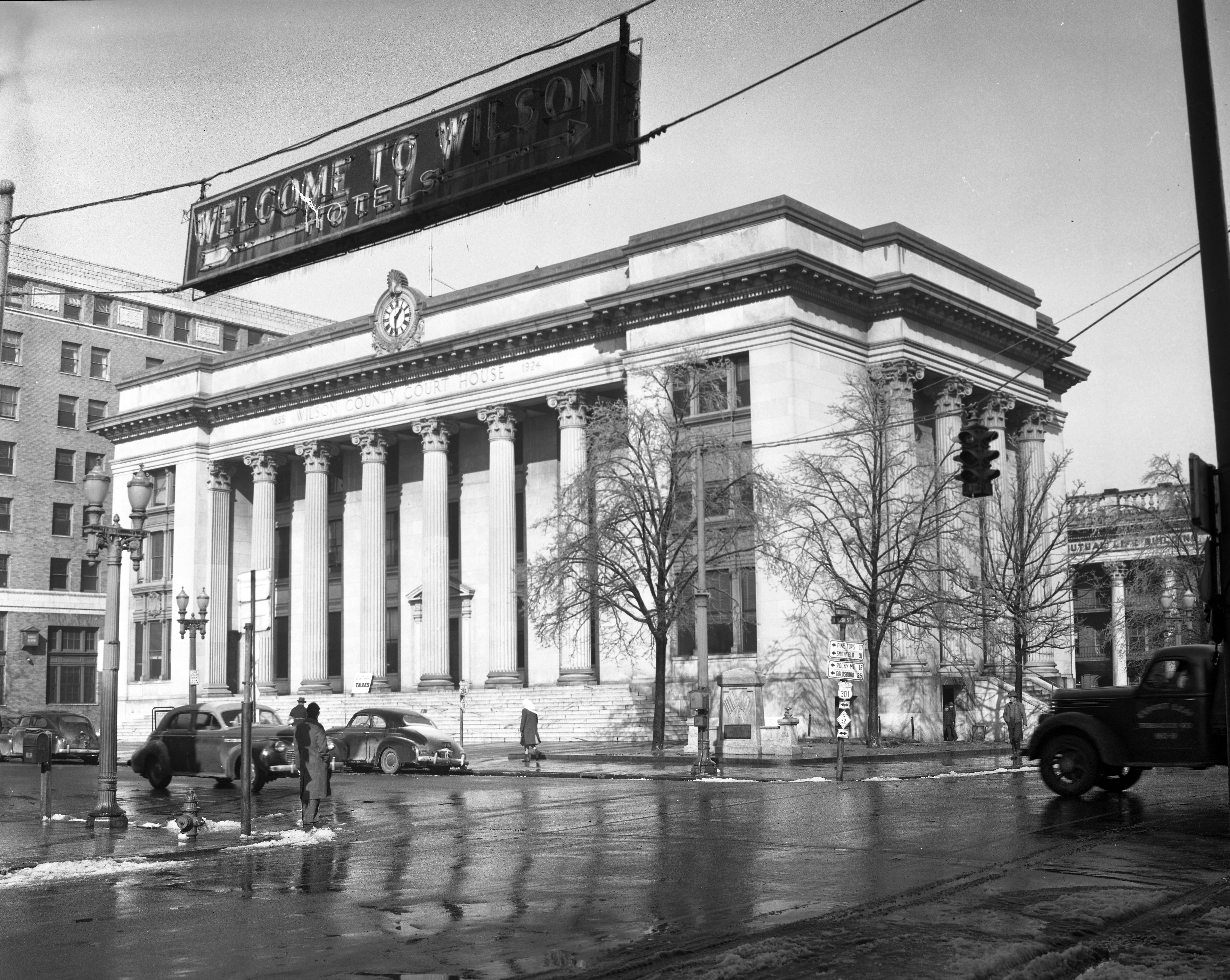 Wilson County Courthouse, Wilson, NC, January 1946, photo by John Hemmer, NC Conservation and Development Department, Travel and Tourism photo files, State Archives of North Carolina.